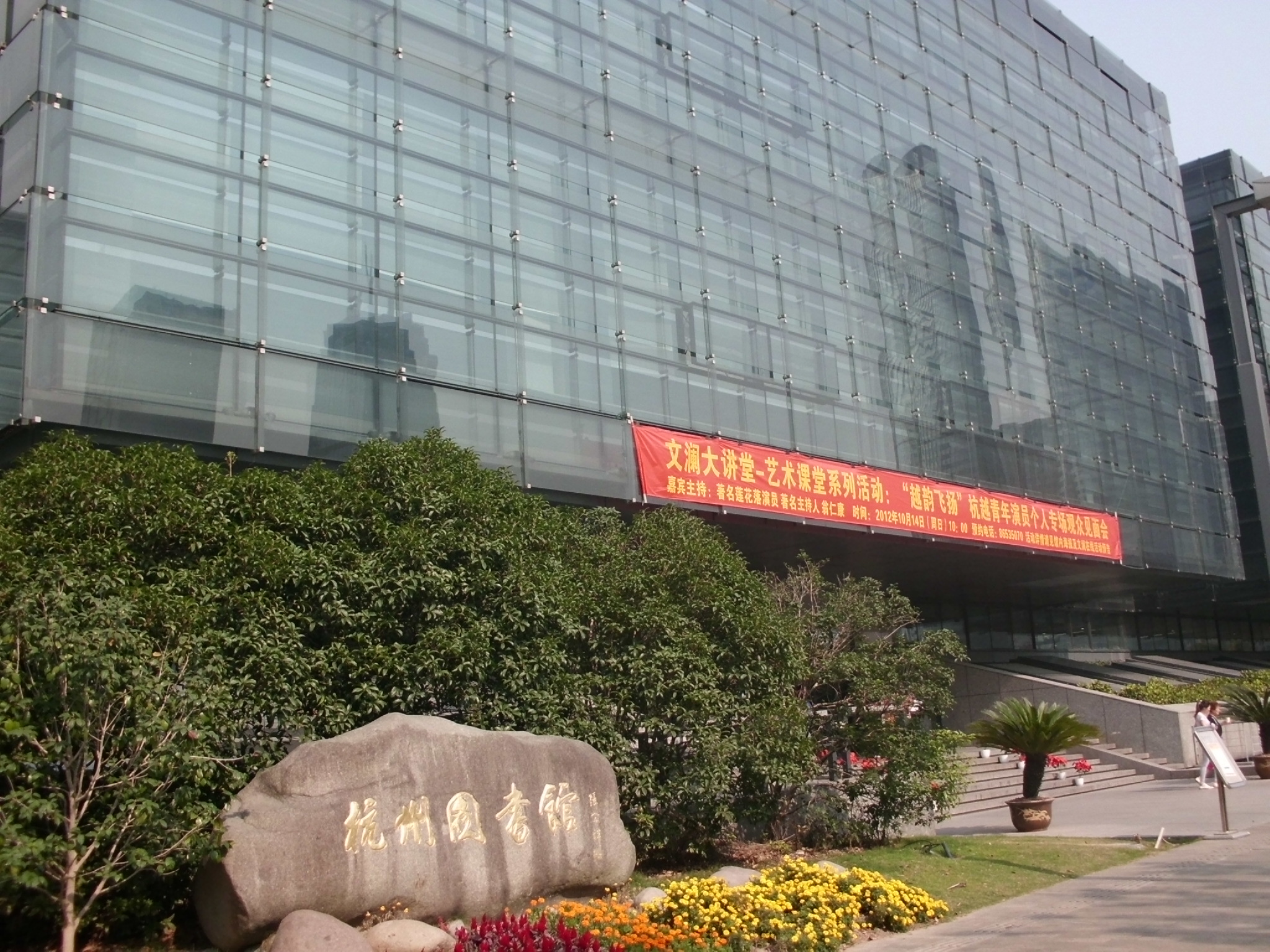 Hangzhou Library main entrance